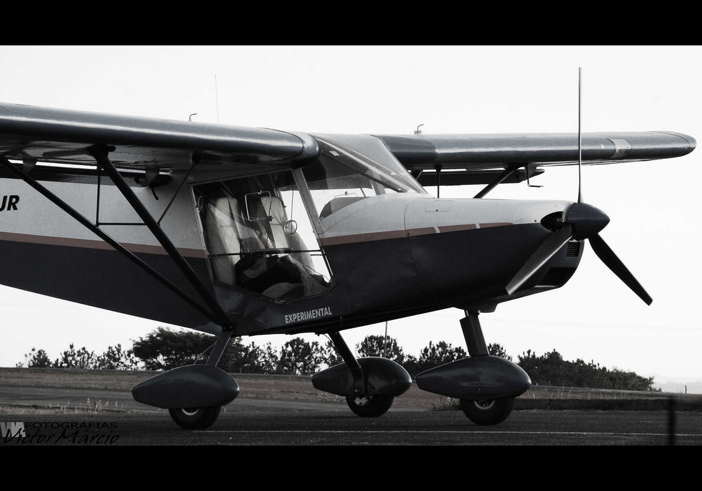 plane